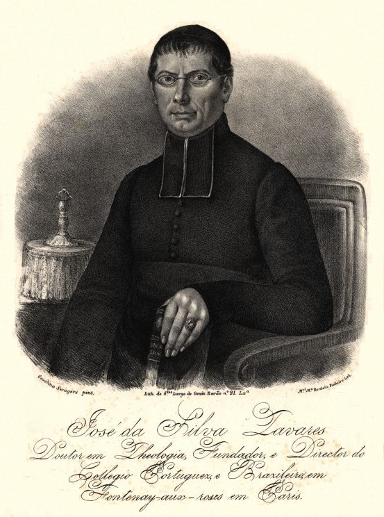 Portrait of José da Sacra Família, a Portuguese writer and professor.